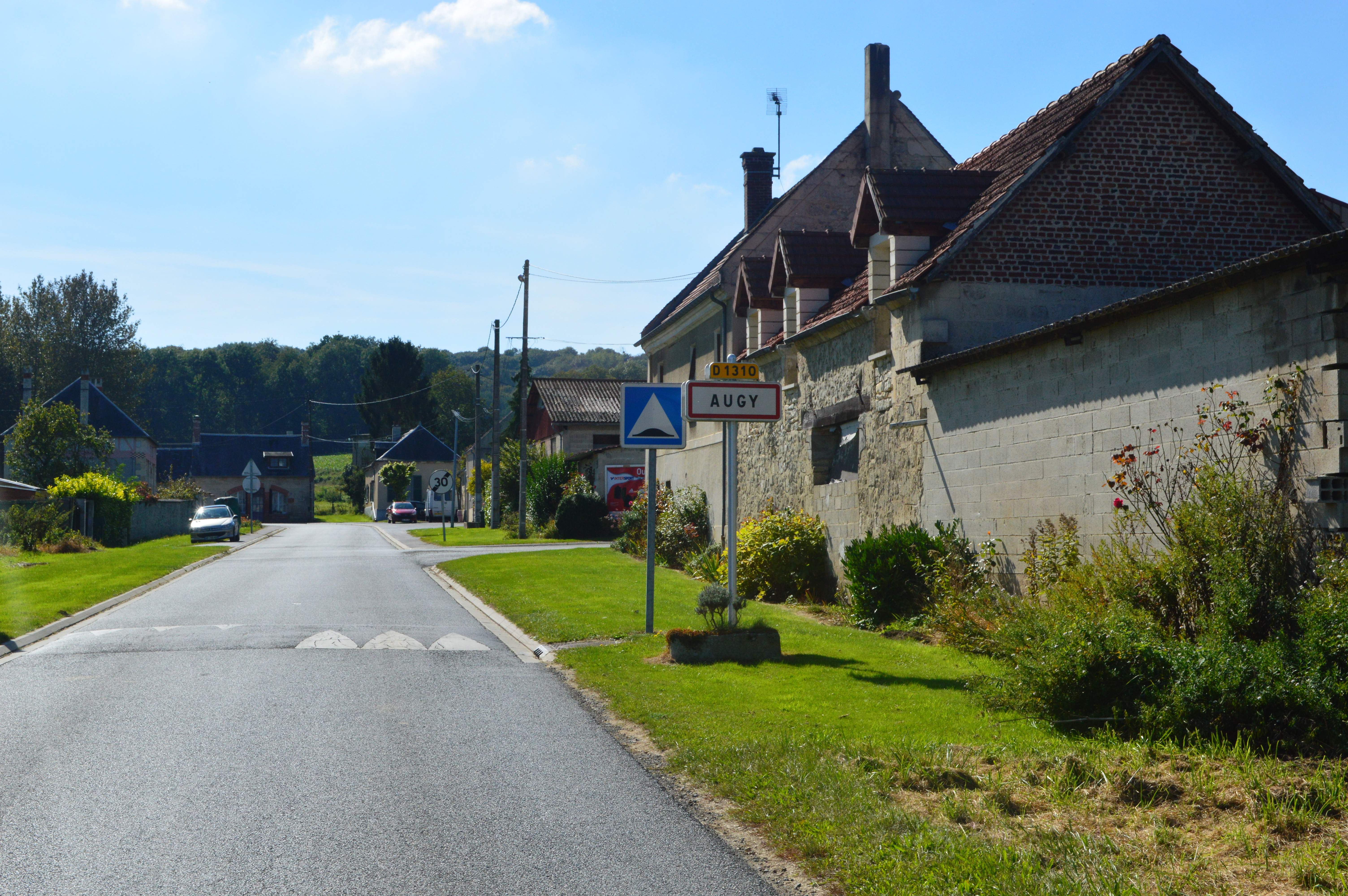 The entry to Augy